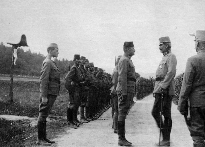 Archduke Eugen visits Bosnian troops, the commander of the Bosnians is major Broschek.